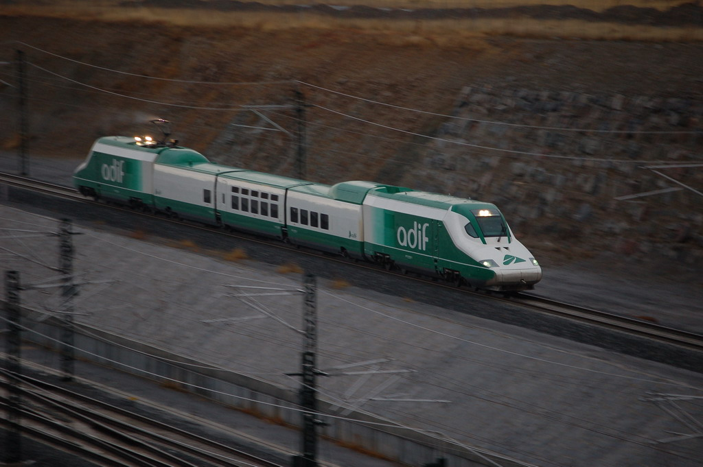 The train laboratory ADIF Series 330 travelling at about 300 kph on the Madrid-Valladolid high-speed line, headed for Madrid.